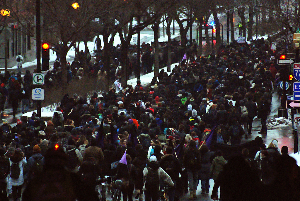 Manifestation en marge du Sommet sur l'enseignement supérieur du Québec 2013, rue Atwater , Montréal